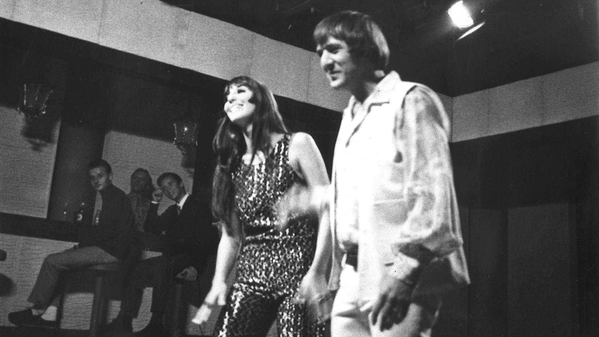 Photograph of Sonny and Cher during their visit to Helsinki.